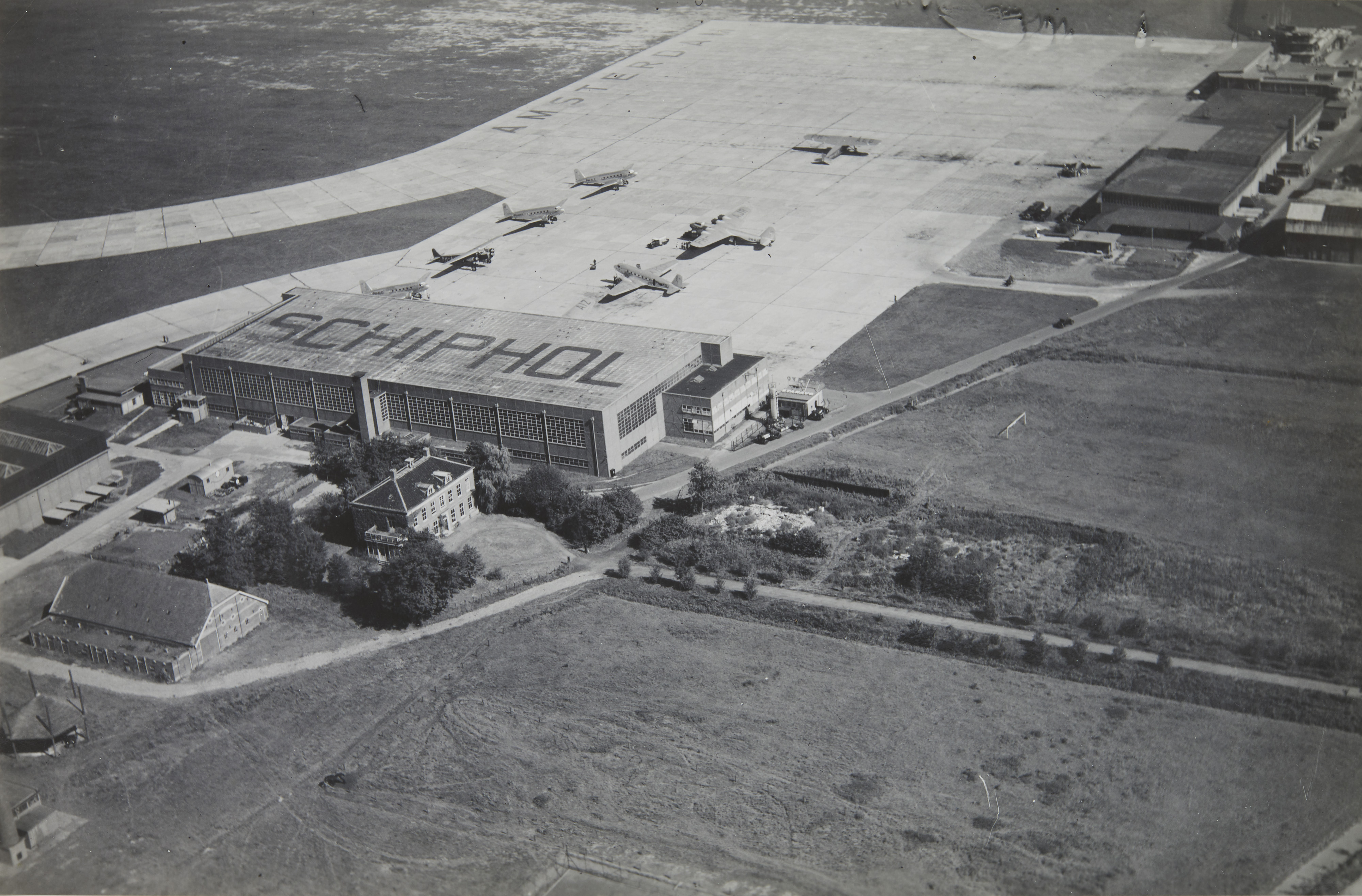 Aerial photograph of Schiphol, The Netherlands.